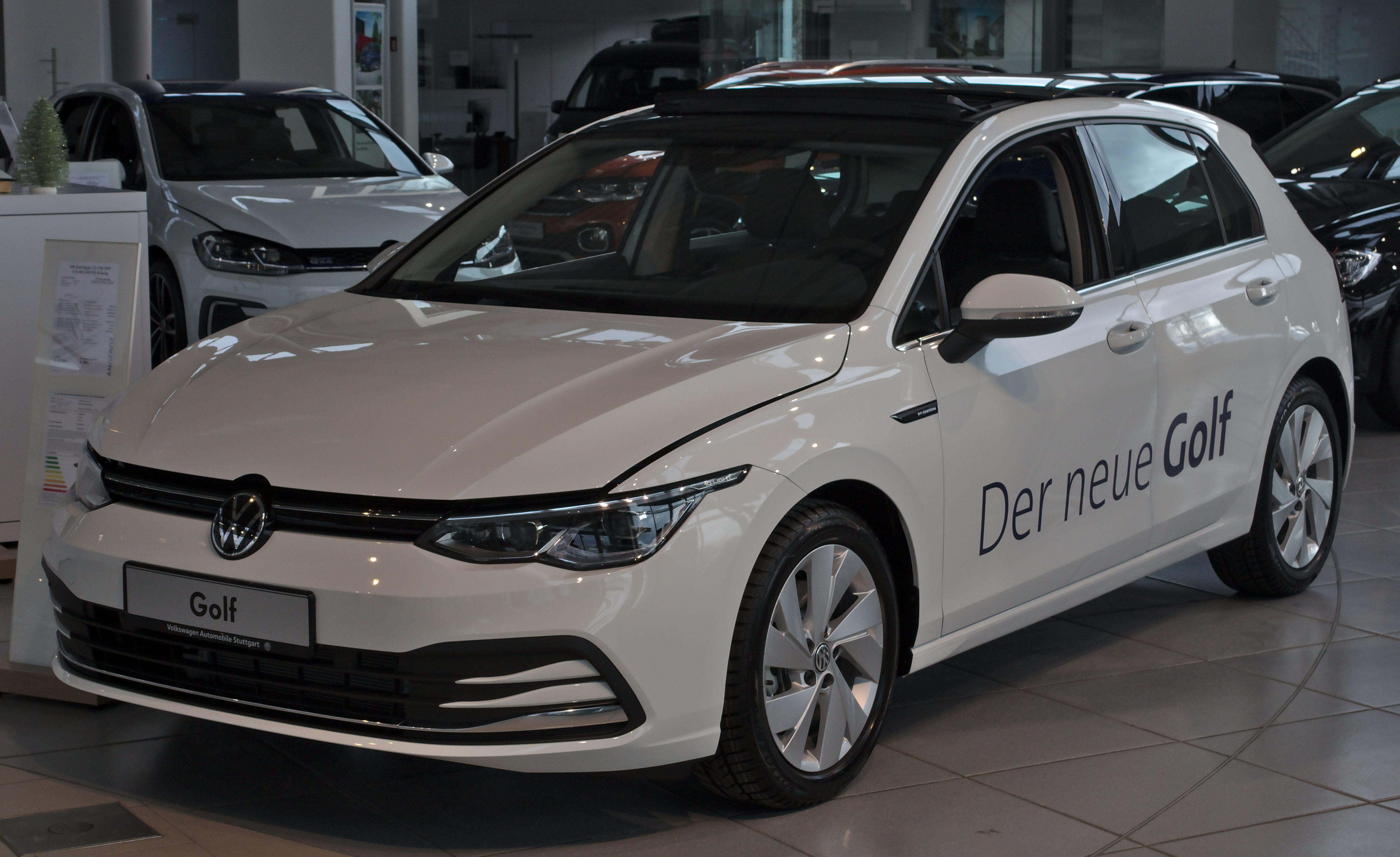 Volkswagen_Golf_VIII in Stuttgart-Vaihingen